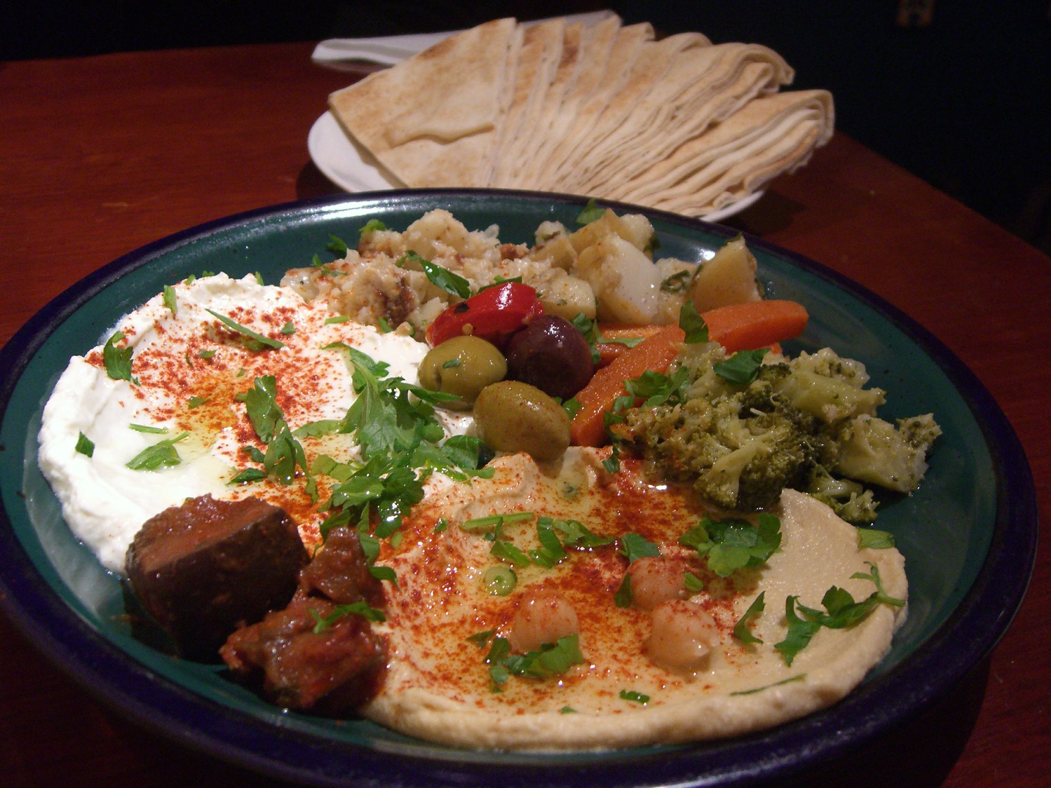 House-made Yoghurt and Chickpea Dips (hummus) - Moroccan Soup Bar. Dinner banquet AUD16 per head, minimum of 2 persons.